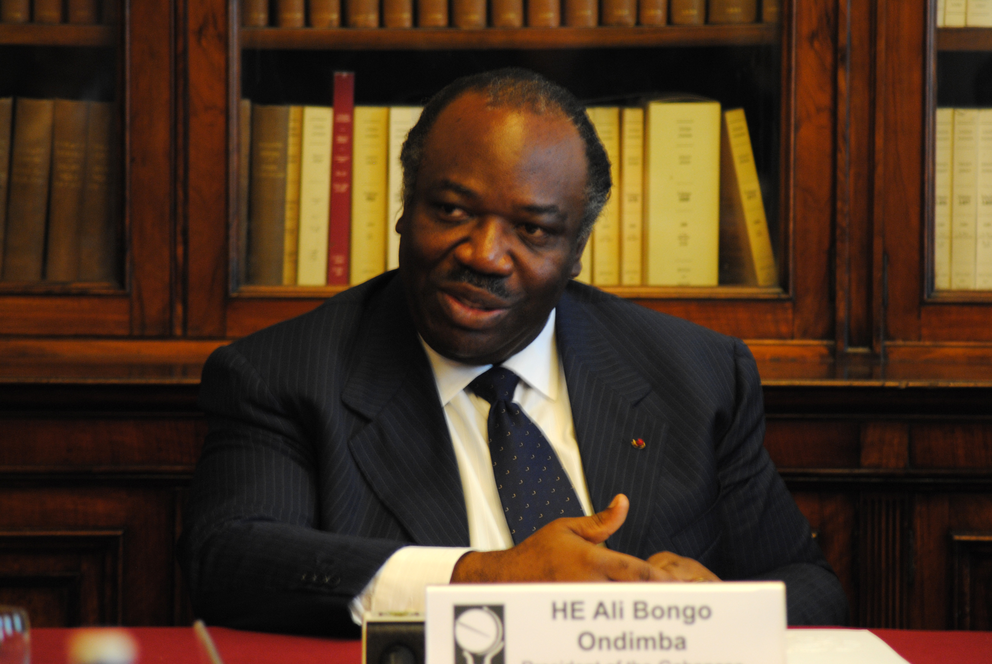 Ali Bongo Ondimba, President of the Gabonese Republic at the Chatham House event Gabon: Investing in the Future, Thursday 17 May 2012.